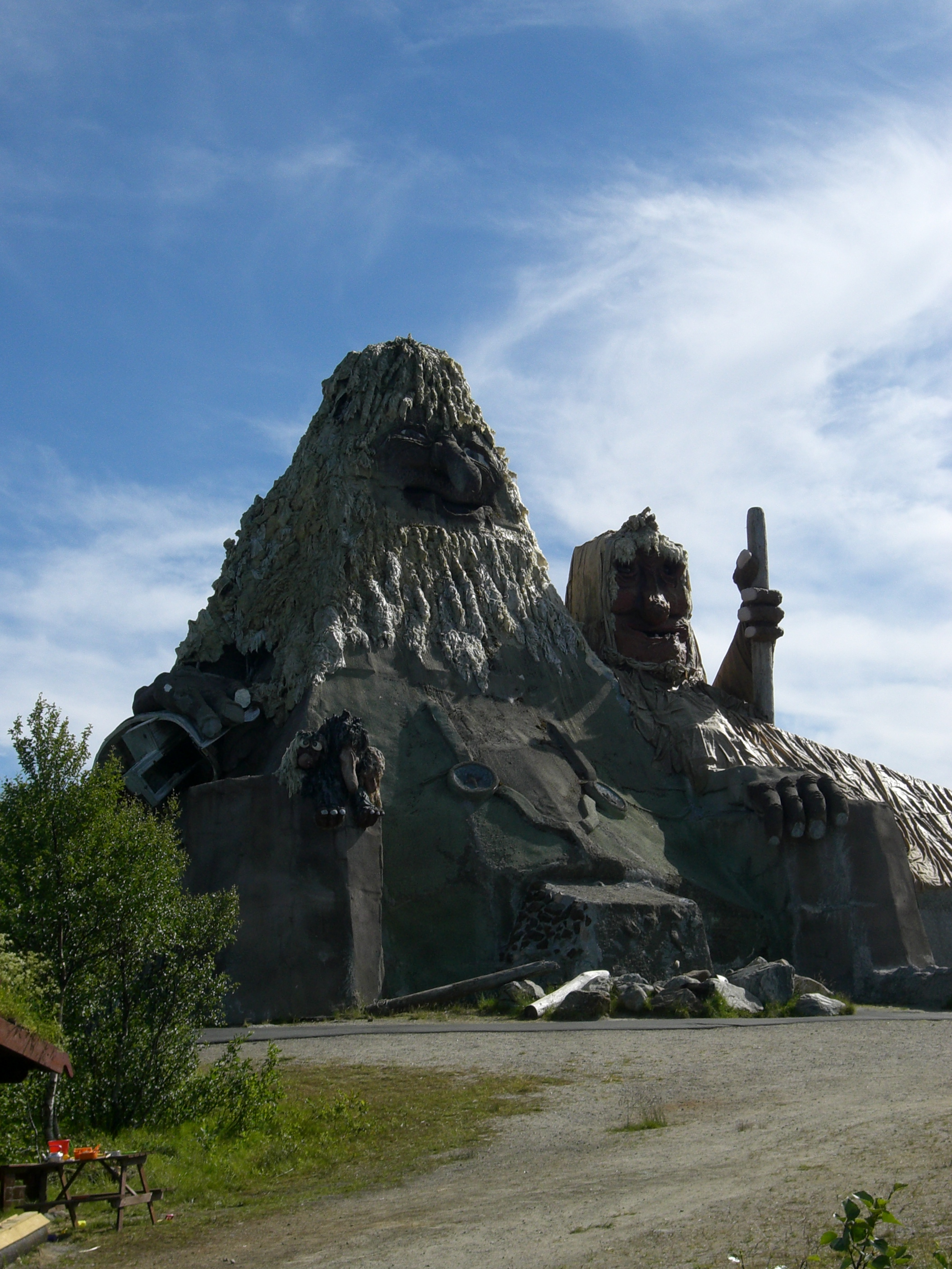 Senjatrollet - trolls vilage on the Senja island in Norway